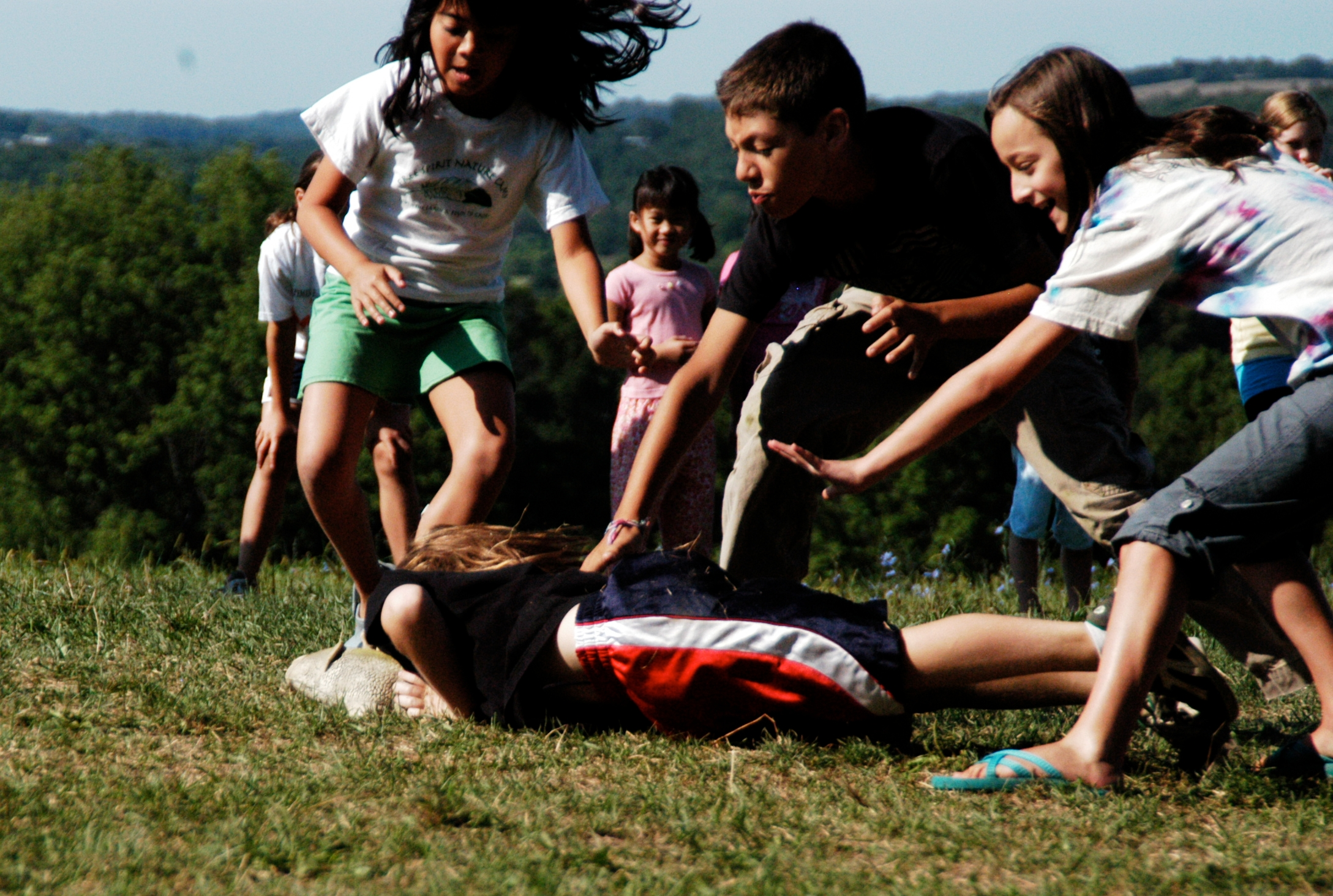 Children playing a variant of tag. In snatch the fish, the fish is placed in the middle, and a number is called, and members from teams try and run and get the fish without being tagged by someone else. Three people are trying to tag one person who has the fish.